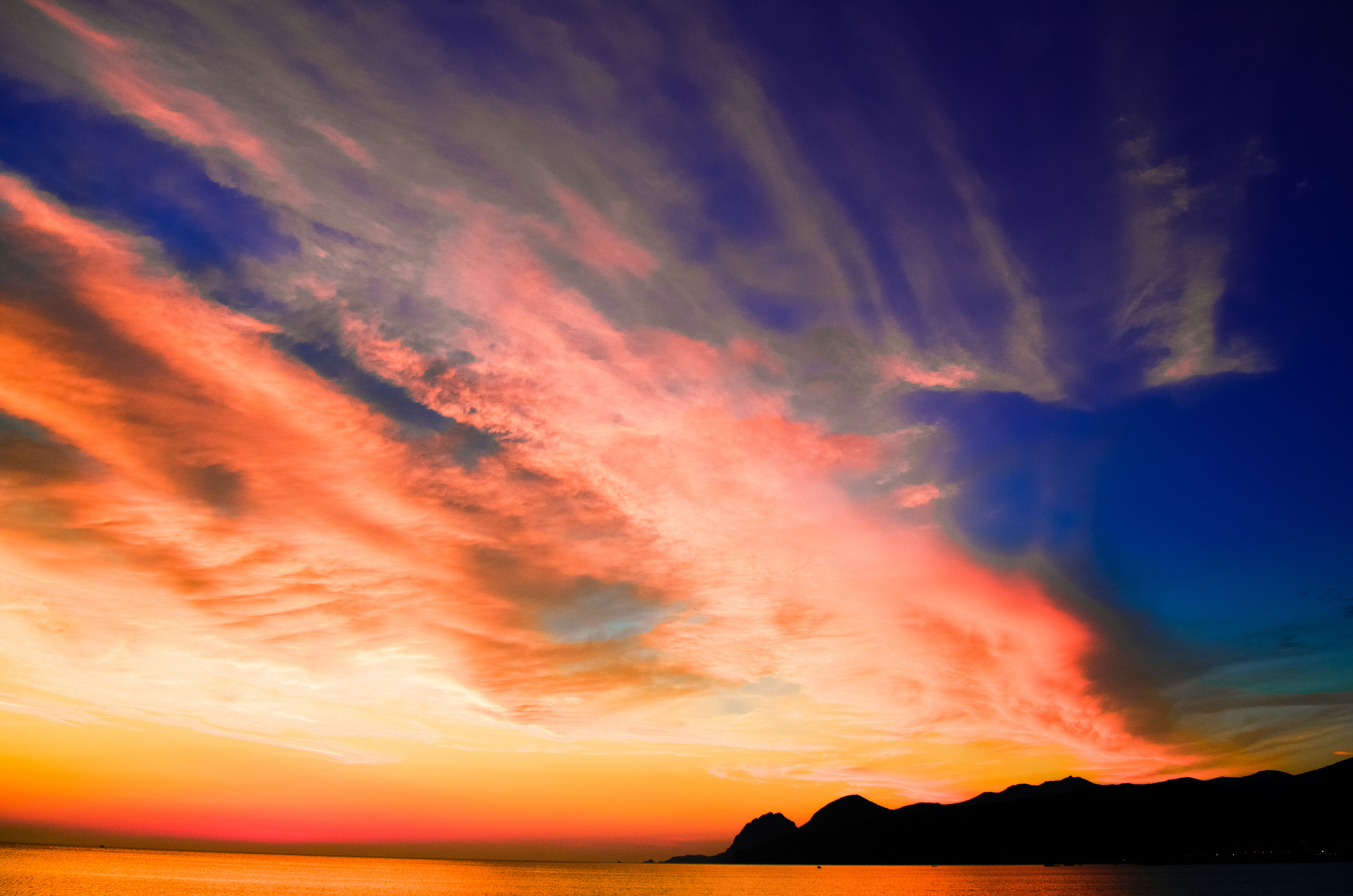 El Marsa beach (Marsa Ben M'Hidi) is situated at Tlemcen in Algeria, a sea in the sunset with alot of orange clouds and a orange reflex of the sun on the see and a mountain on the side